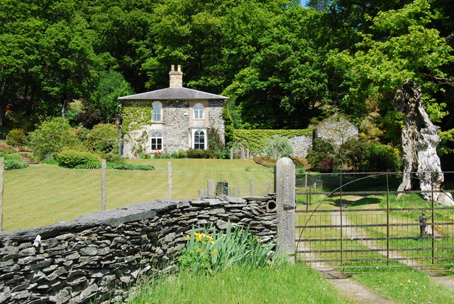 Branas Lodge